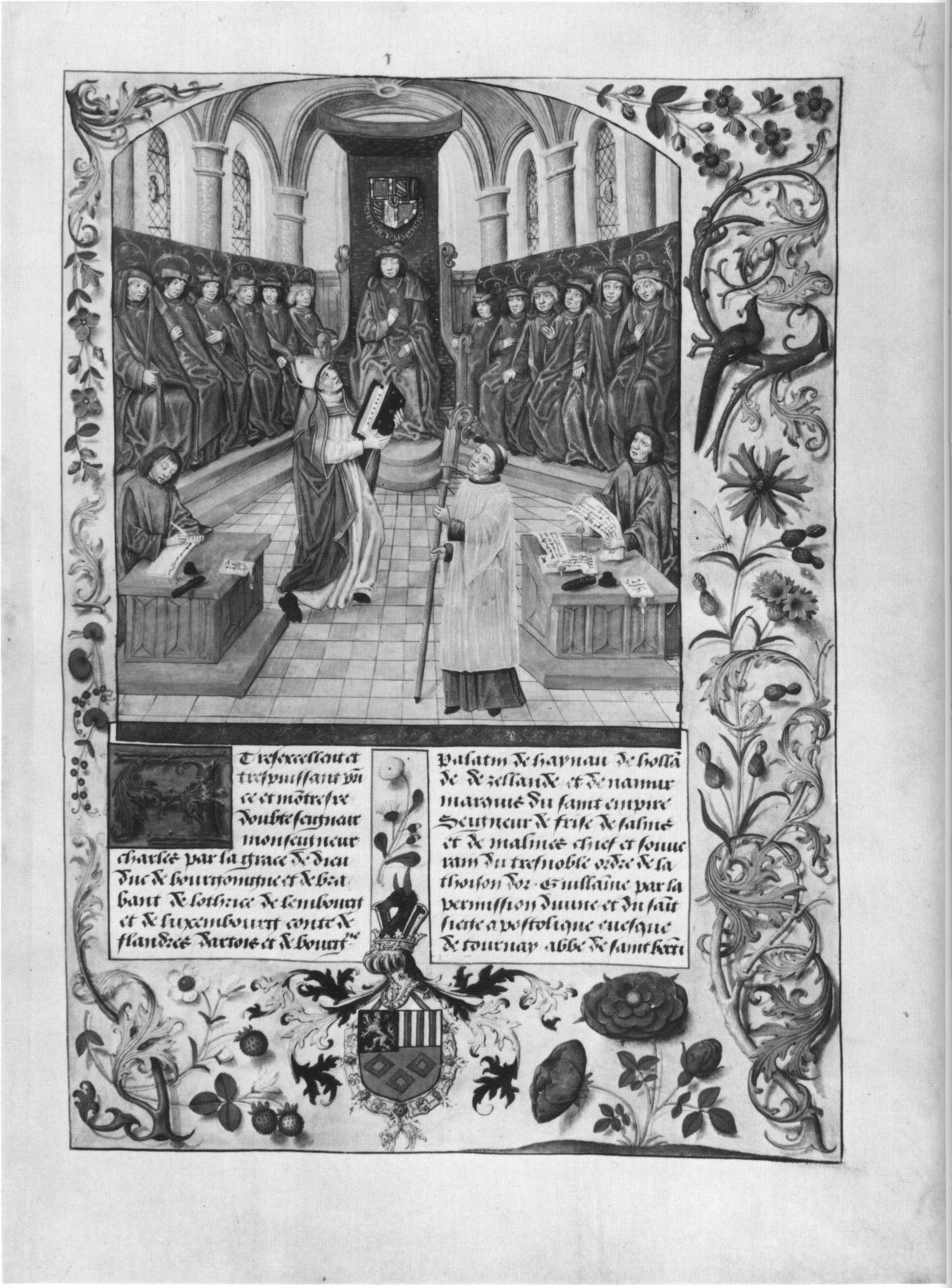 Guillaume Fillastre the Younger, Histoire de la Toison d’Or. The illumination shows a session of the Chapter of the Order of the Golden Fleece. Front left: Guillaume Fillastre in bishop’s vestment; in the middle duke Charles the Bold of Burgundy. Vienna, Österreichische Nationalbibliothek, Cod. 2541, fol. 4r.